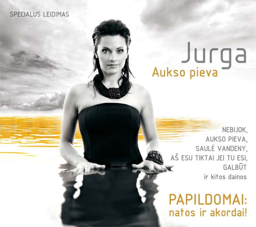 The cover artwork of the special issue of Jurga's debut album Aukso Pieva